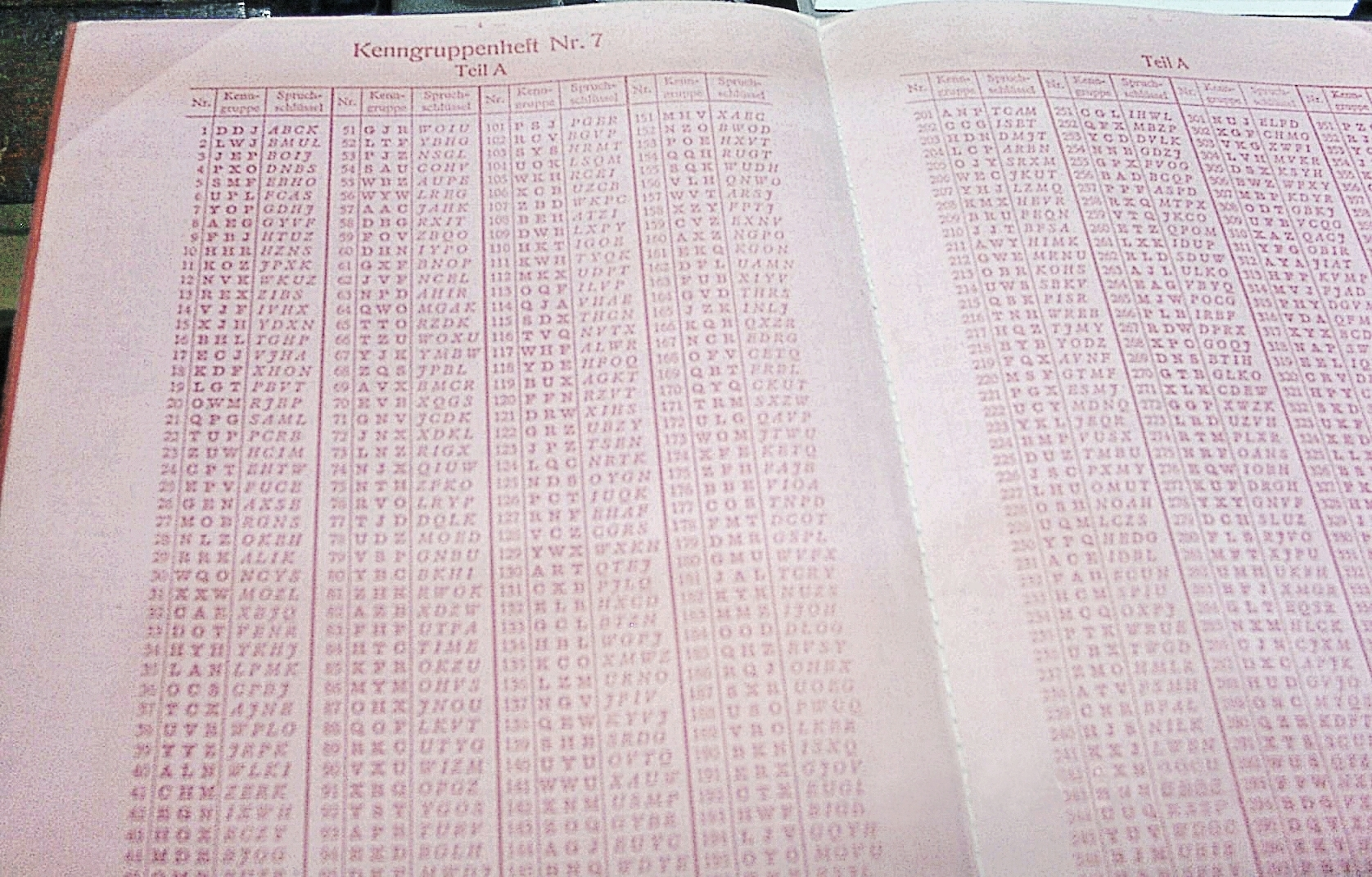 An Enigma codebook recovered from the captured U-505.